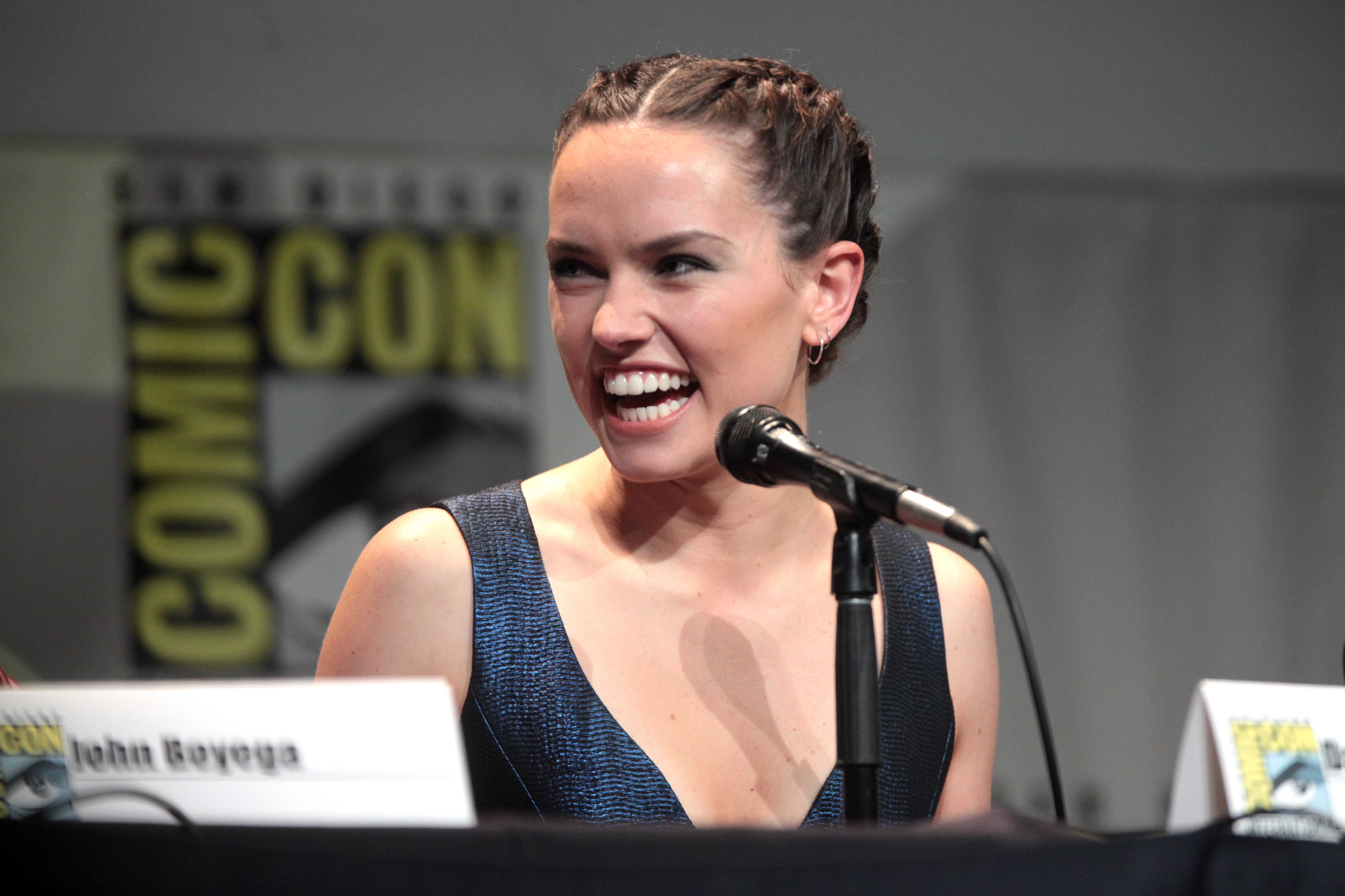 Daisy Ridley speaking at the 2015 San Diego Comic Con International, for "Star Wars: The Force Awakens", at the San Diego Convention Center in San Diego, California.